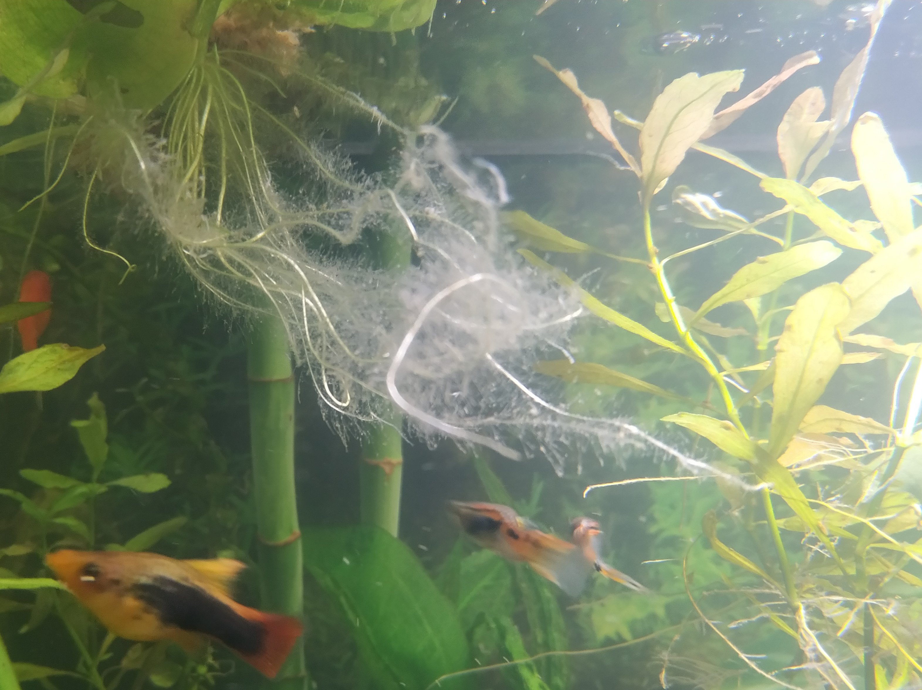 Limnobium laevigatum 5